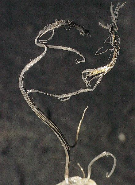 Silver Locality: Bulldog Mountain Mine, Creede District, Mineral County, Colorado, USA (Locality at ) An old classic, twisted, ropy, wire silver from Creede! This is a rare specimen in that most are thumbnails, or single long wires, or even small ropes on matrix but few larger silvers have been preserved , at least on the collector market. (No old labels with this one, but I have run it by several experts on the stuff and they thought it seemed legit. In person, it is quite different in appearance and firmness from similar-appearing Freiberg material). 4.5 x 2.6 x 0.25 cm